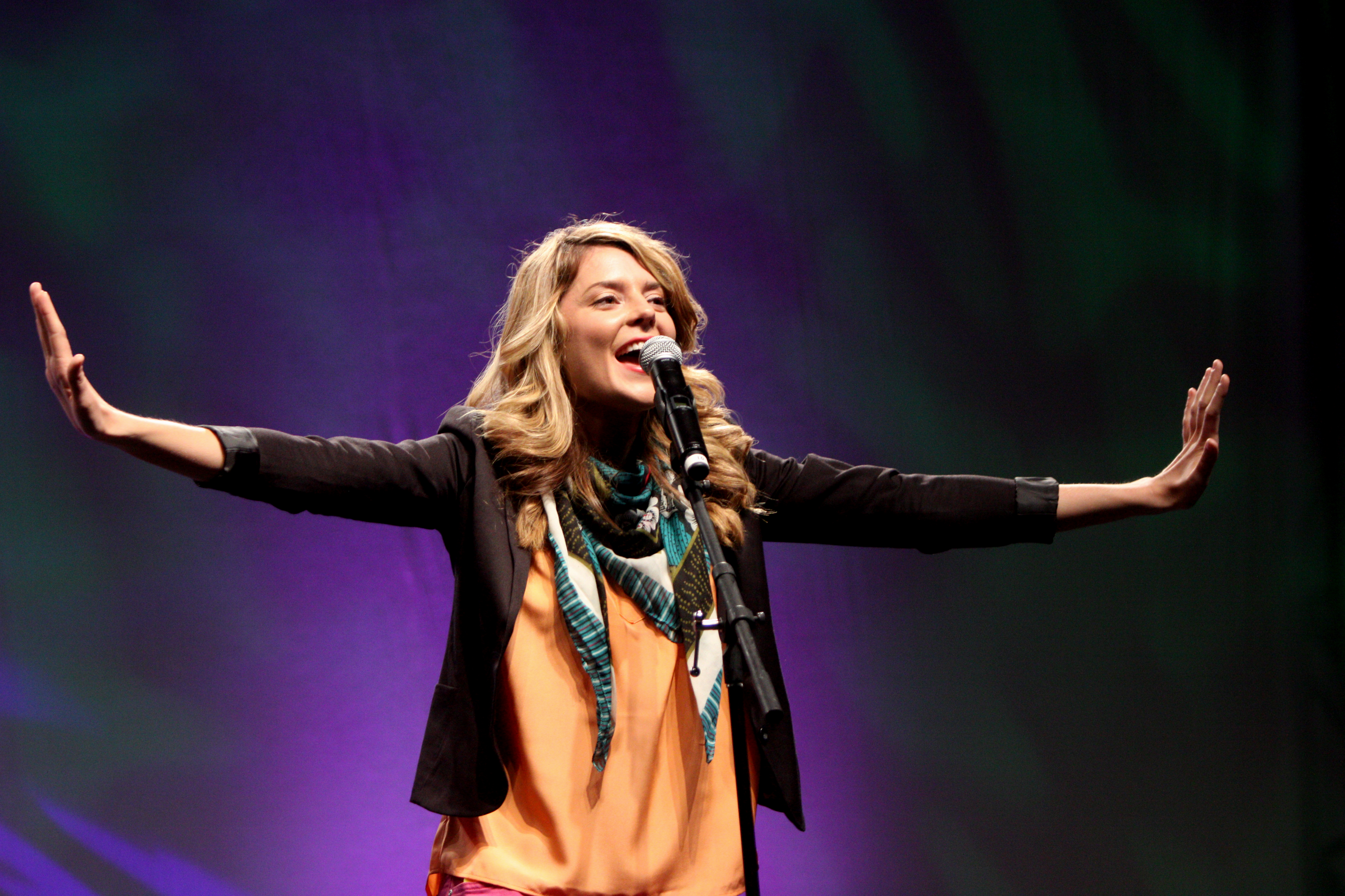 Idol of MyMusic (played by Grace Helbig) speaking at VidCon 2012 at the Anaheim Convention Center in Anaheim, California.